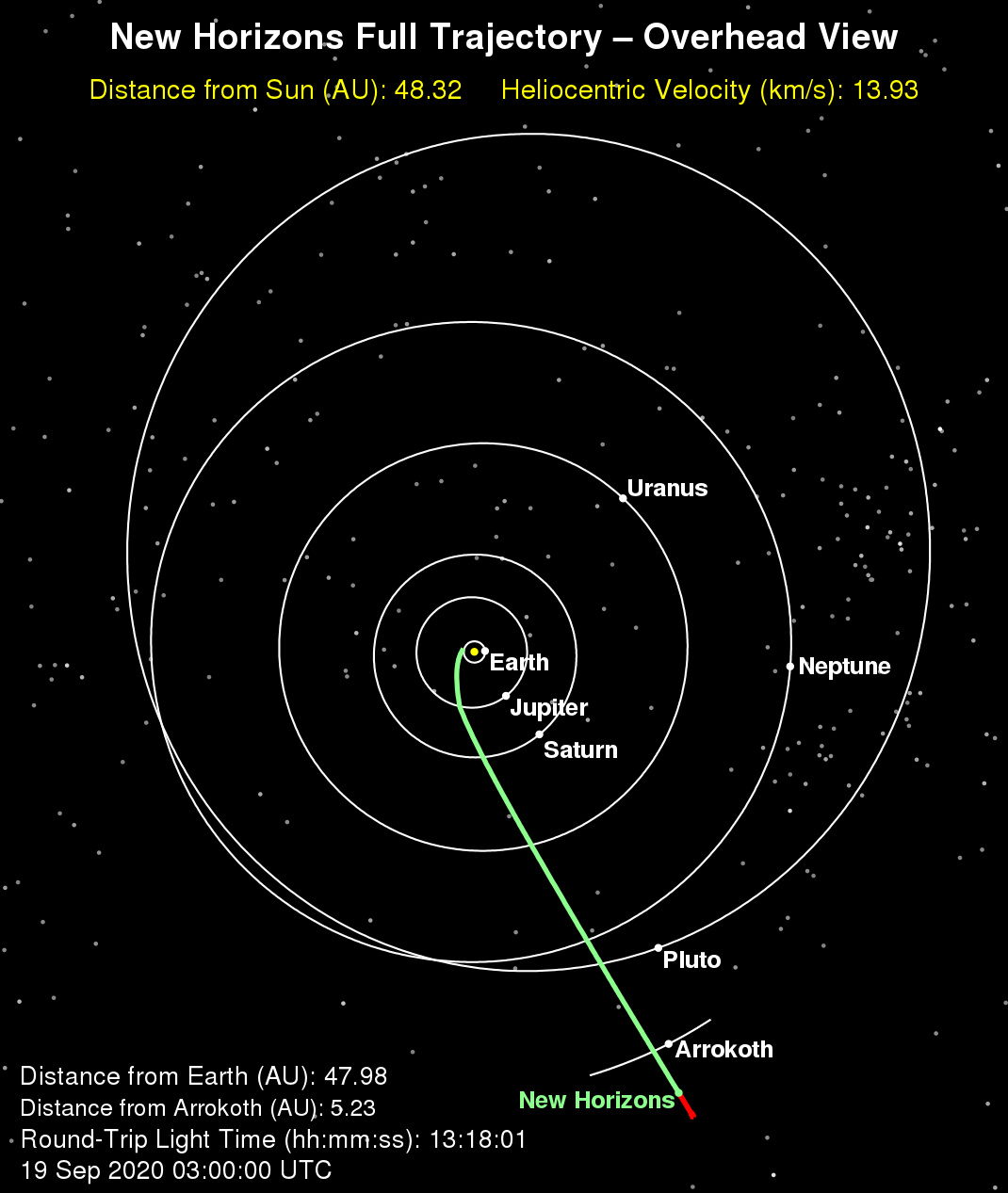 Full Trajectory of New Horizons